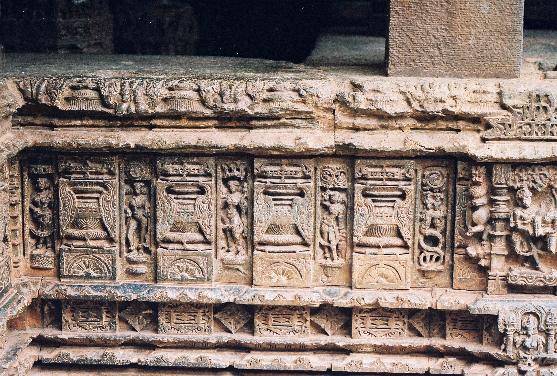 Mahadeva Temple at Itagi, Koppal district, karnataka state, India